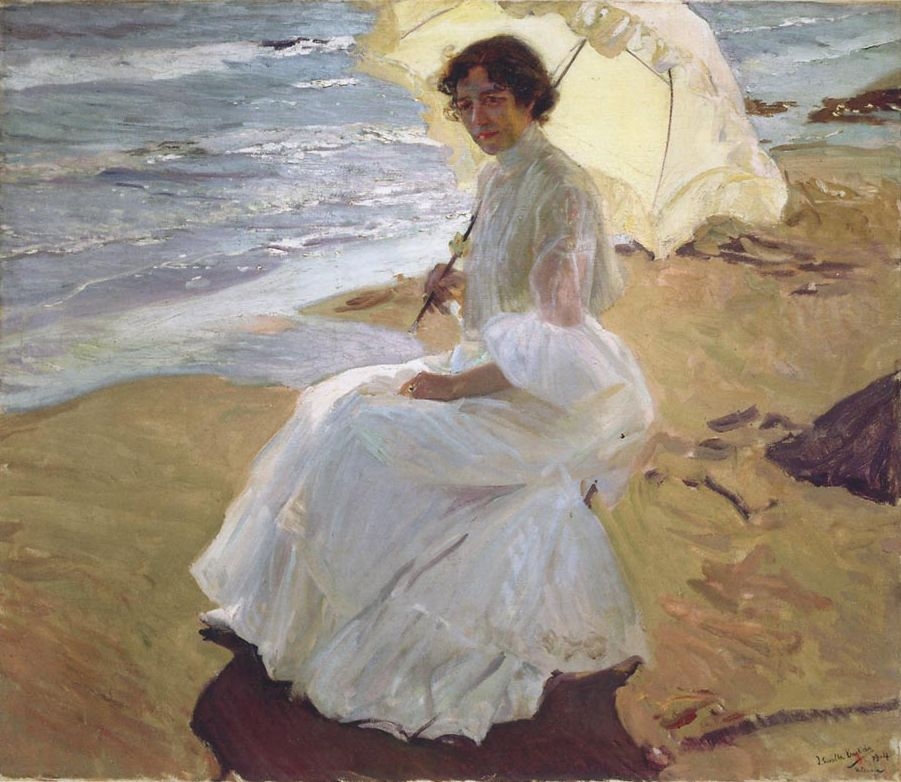 Portrait of his wife, Clotilde García del Castillo.